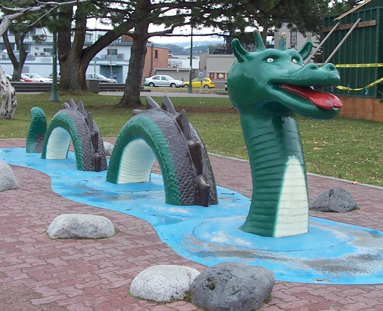 A Statue of an Ogopogo in a Kelowna park.